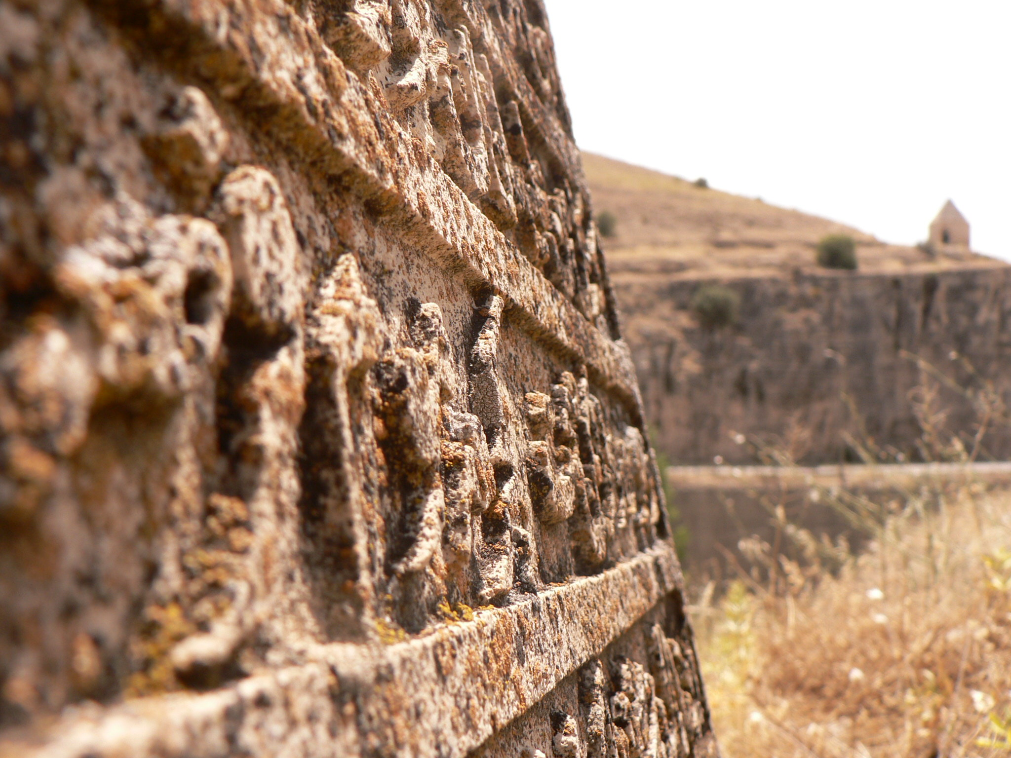 An Ottoman cemetery in the district of Kemah in Erzincan Province